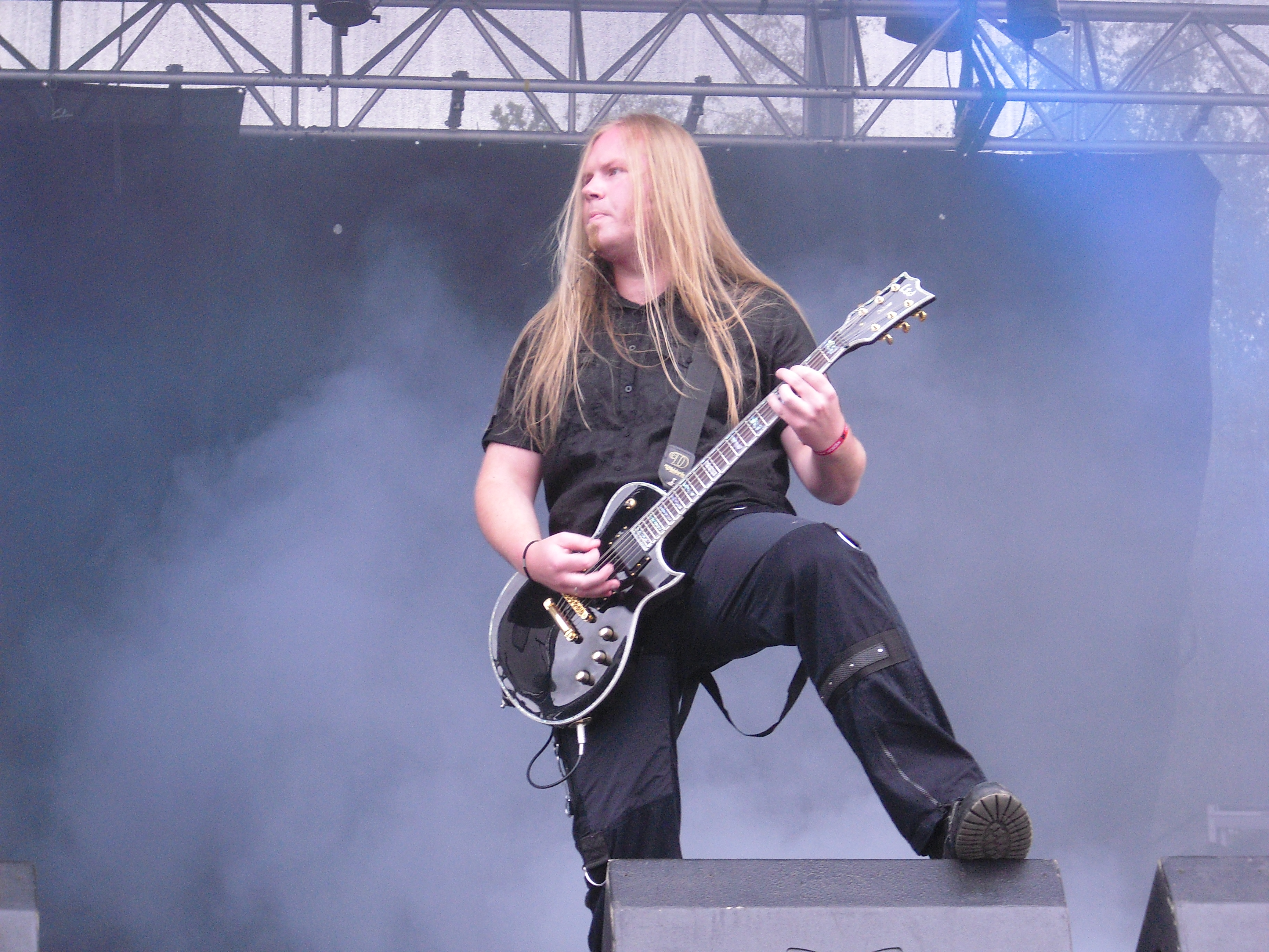 Morten Veland performing with Sirenia at Norway Rock Festival 2009